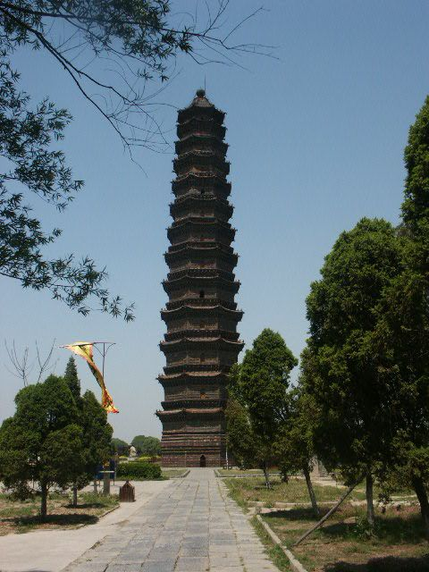 The 'Iron Pagoda' of Kaifeng, Henan, China, built out of glazed brick in 1049 CE during the Chinese Song Dynasty (960–1279).